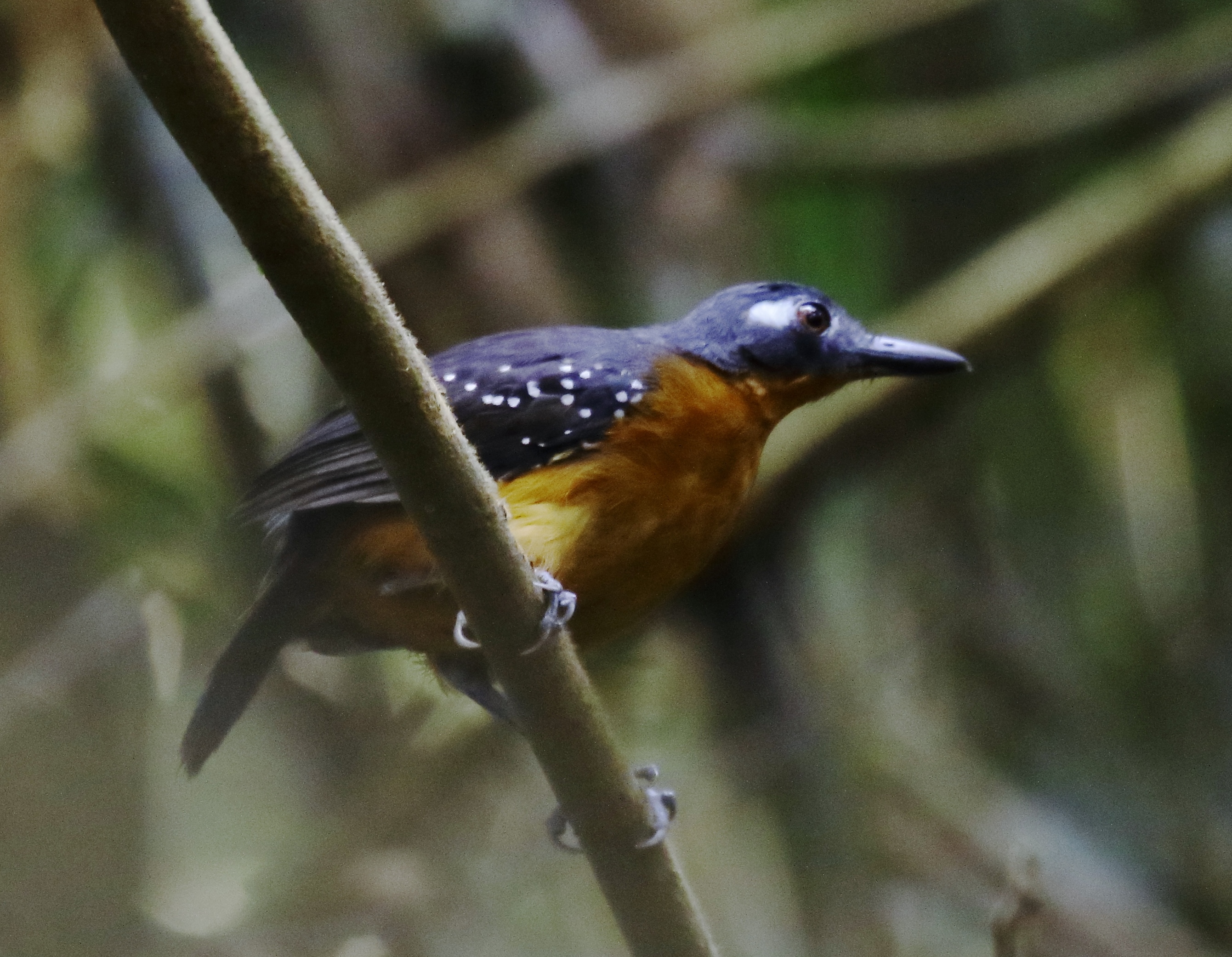 Plumbeous antbird (female) at Rio Branco, Acre, Brazil